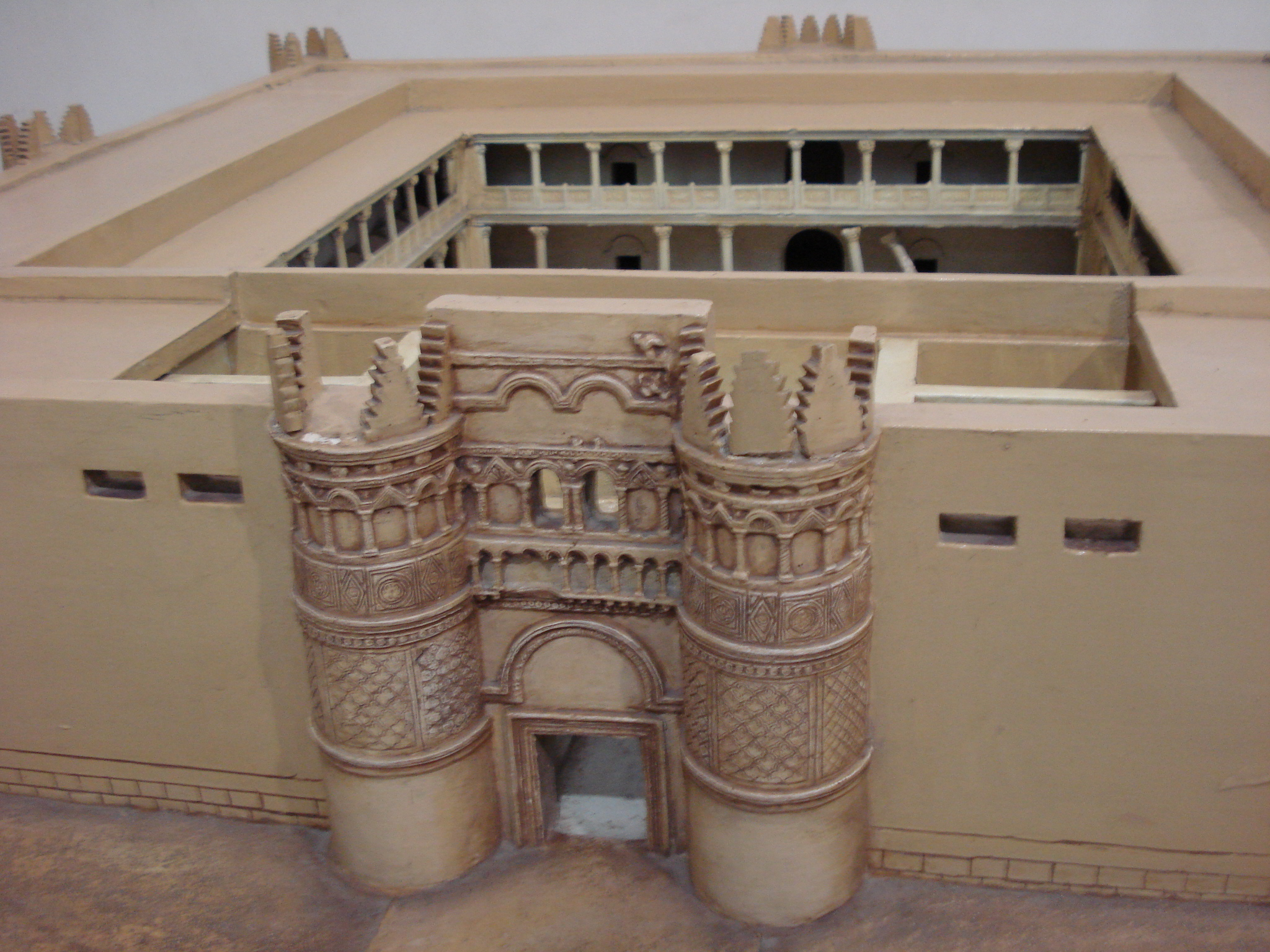 A model represents the ruines of Qasr Al-Hir Algharbi in the Syrian Desert, 80km south western Palmyra (At the time it was discovered). The Castle was built by the Umayyad Caliph Hisham bin Abdulmalik during the 2nd century A.H, around 8th century